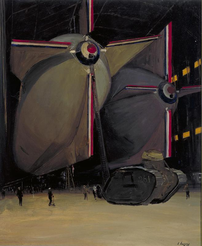 'Rigids' At Pulham, 1918. R23 Type British Airships at Pulham St Mary, Norfolk.